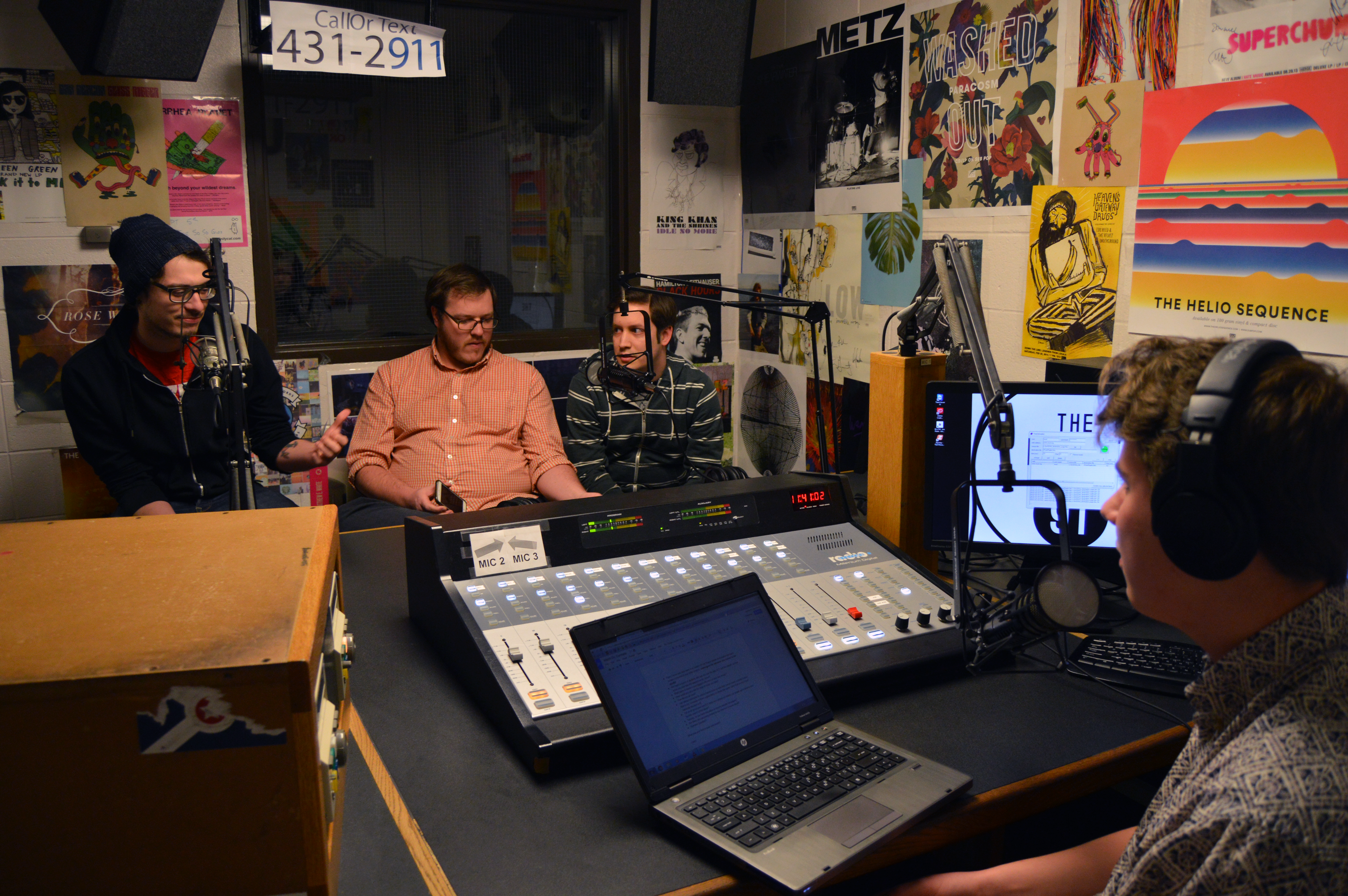 March on Comrade in the Point 91fm studios.